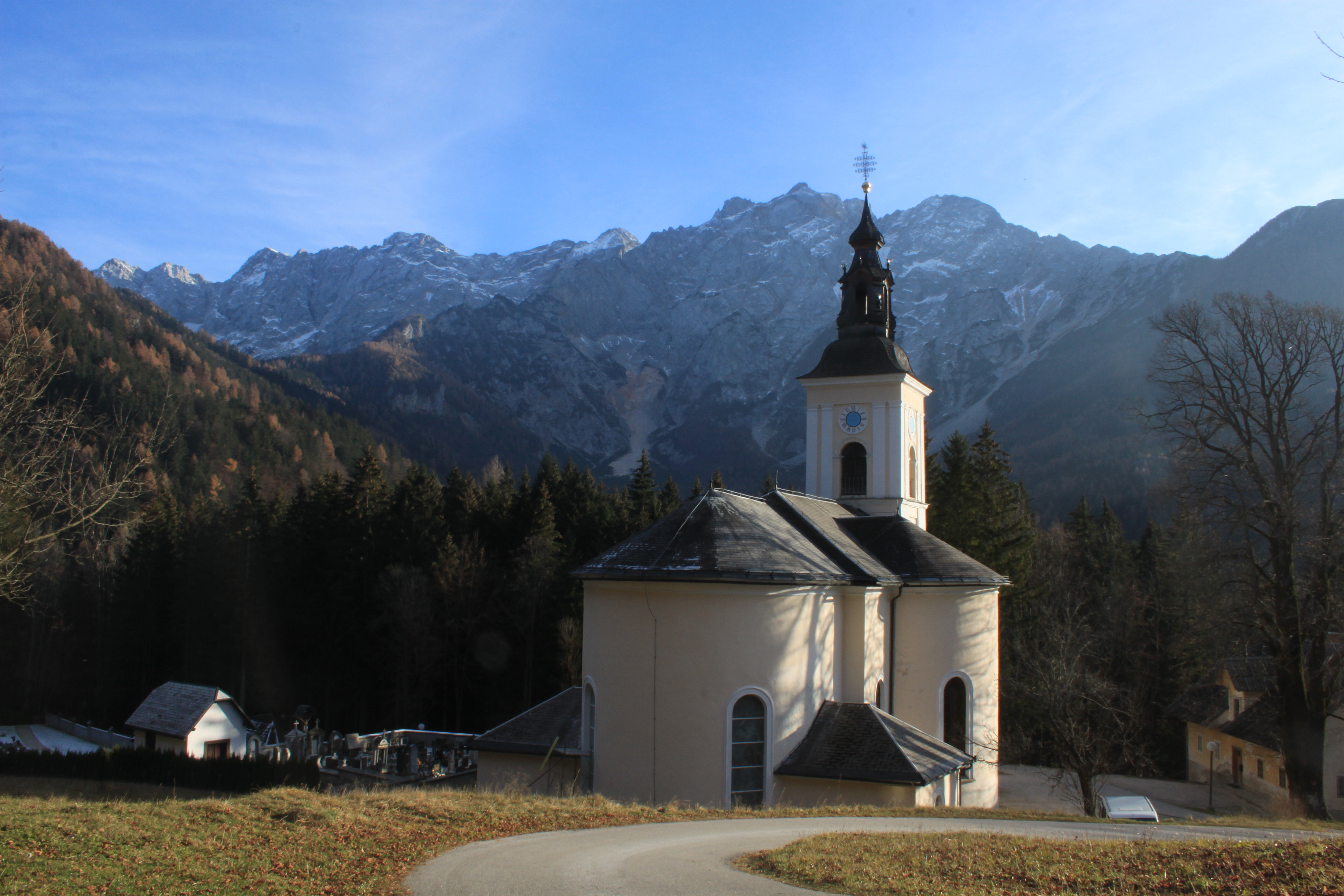 Parish Church of St. Oswald, Jezersko, Slovenia.